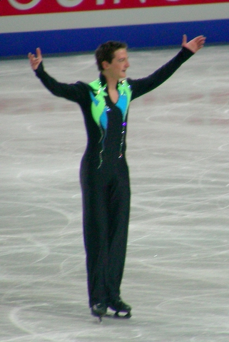 John Hamer on the 2007 European Figure Skating Championships in Warsaw - free skate